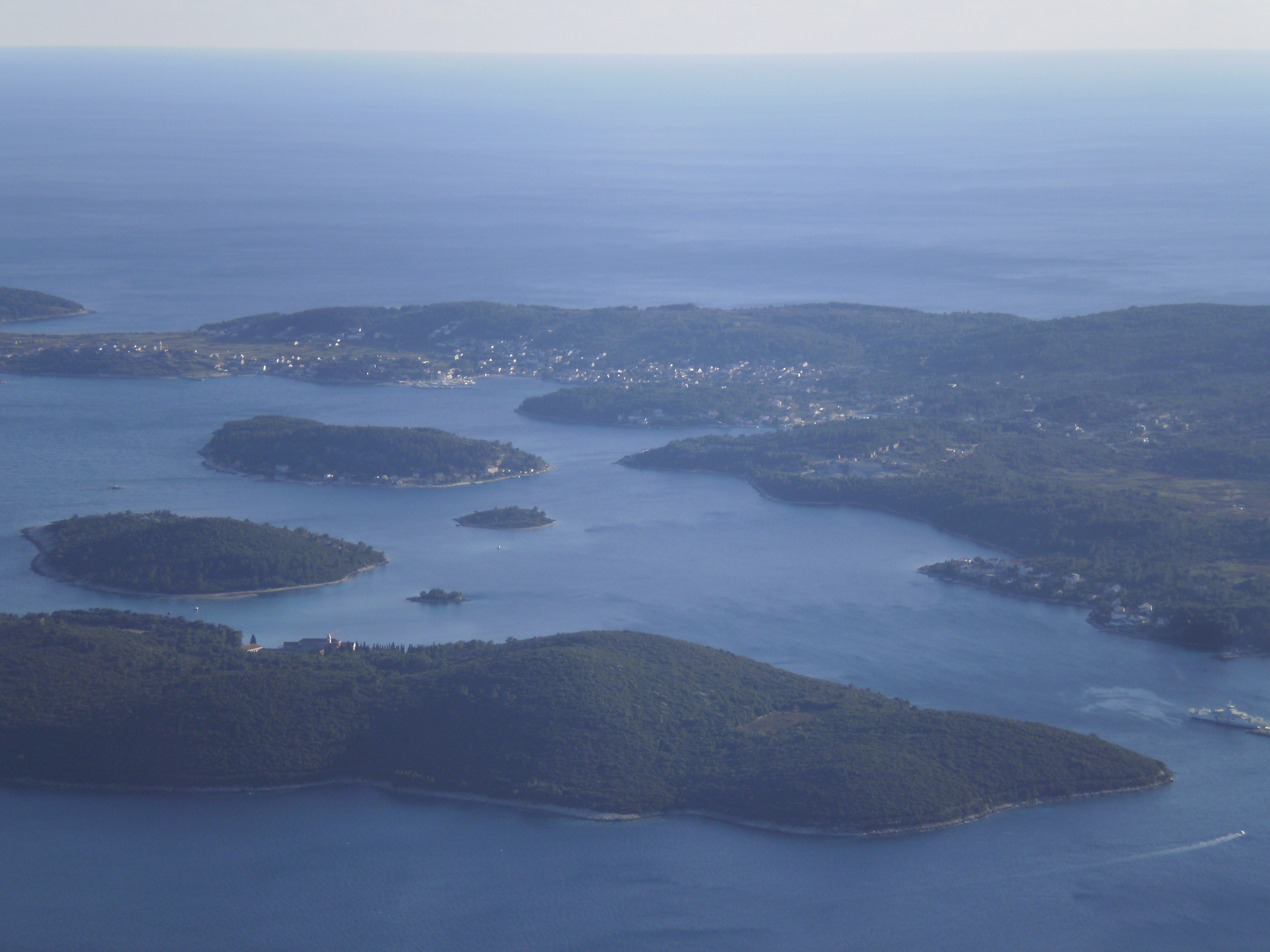 Panorama photos of Lumbarda and islands